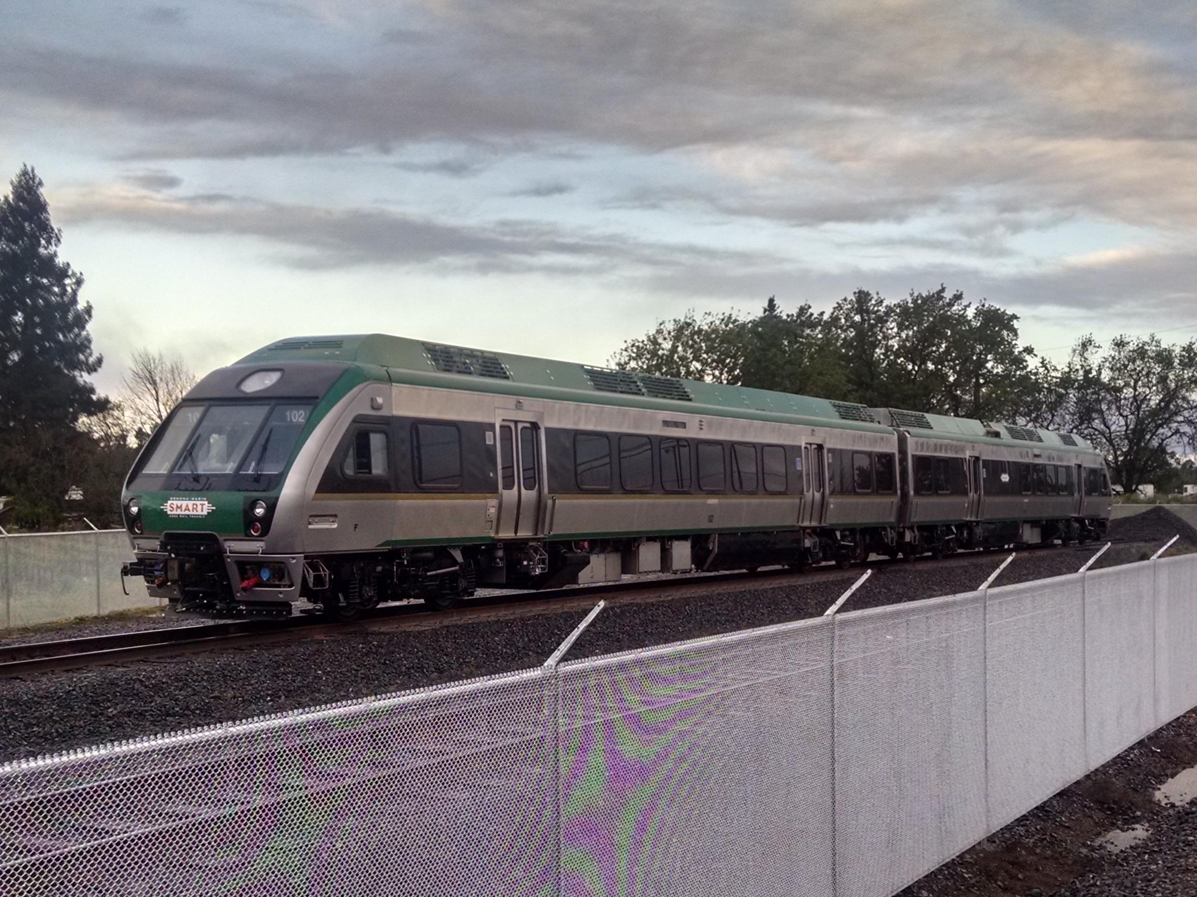 Photo of Sonoma-Marin Rail Transit (SMART) Rolling Stock. The train is a Nippon Sharyo DMU. Photo taken in Fulton, CA.